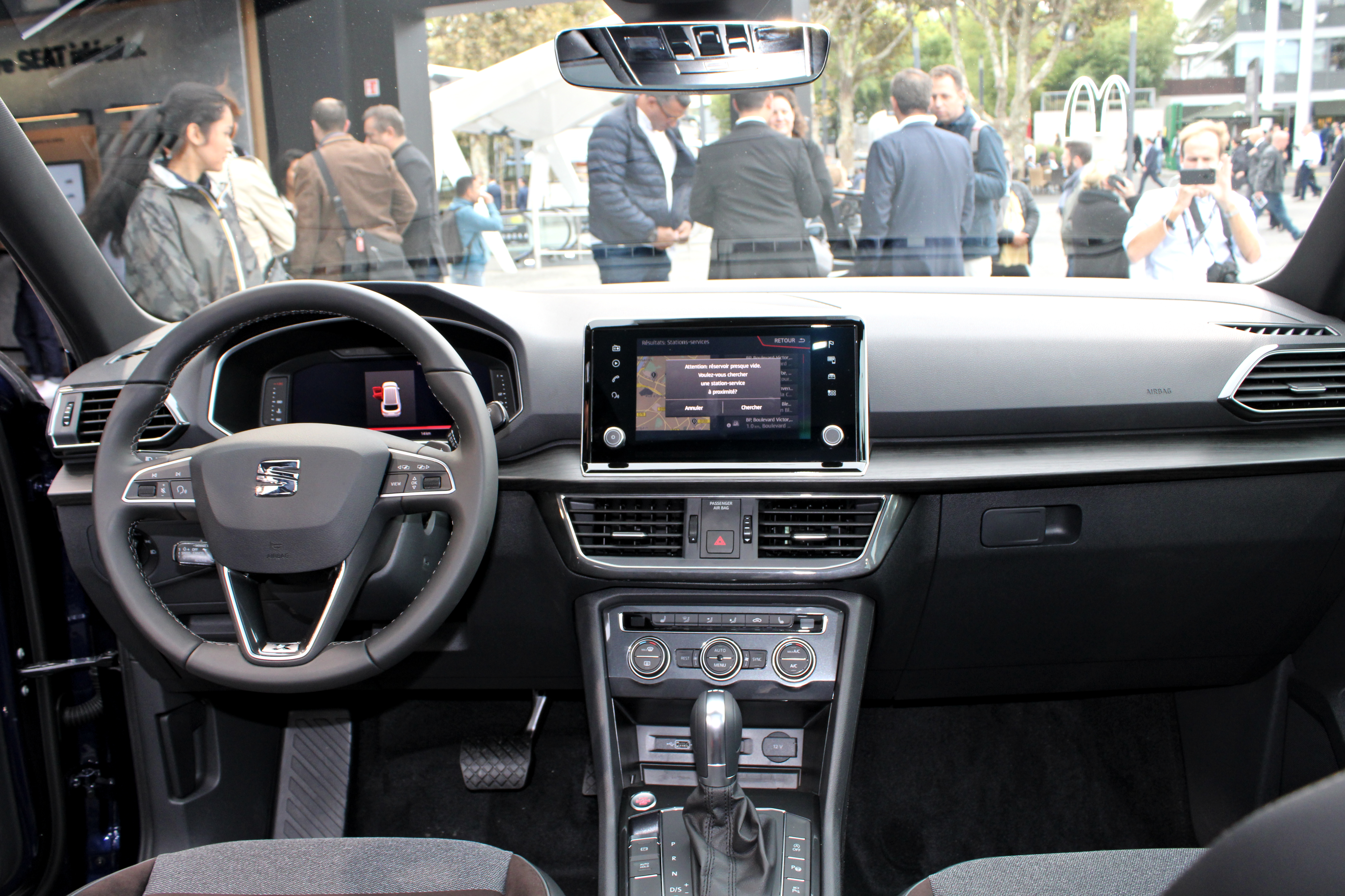 Seat Tarraco at Paris Motor Show 2018